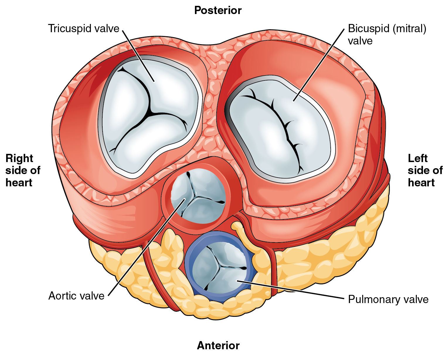 Illustration from Anatomy & Physiology, Connexions Web site. Jun 19, 2013.